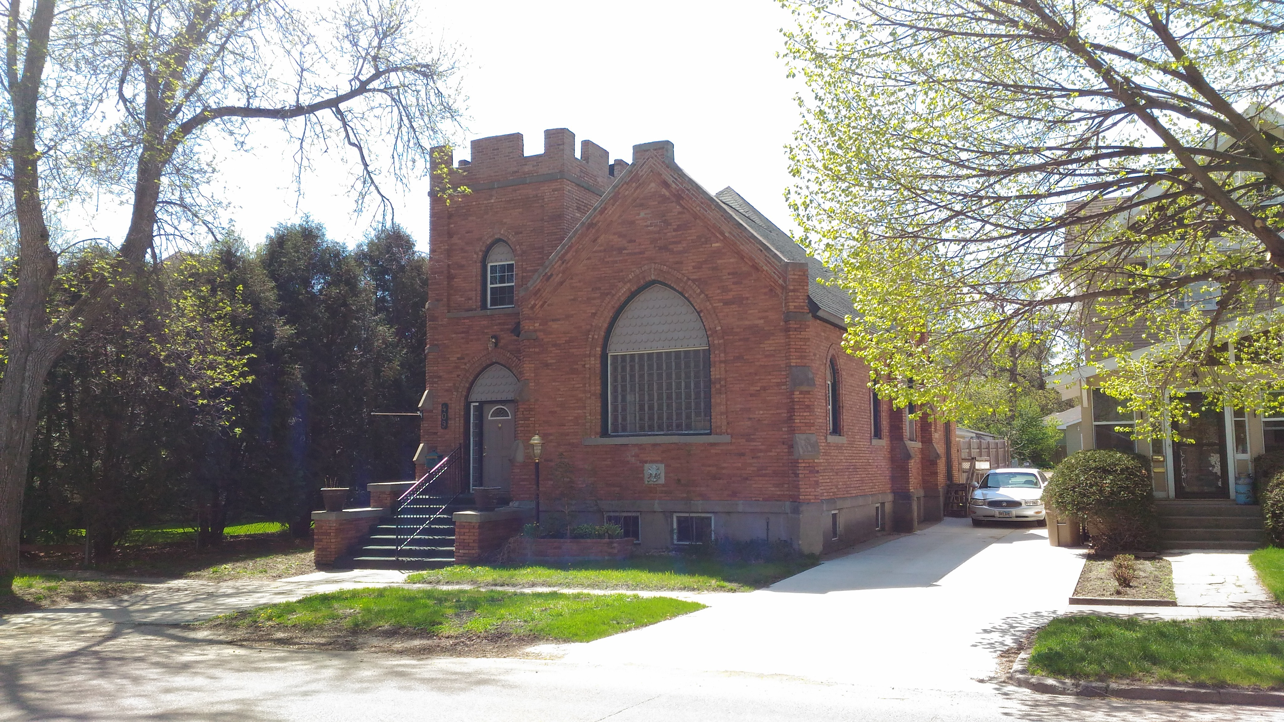 Evangelical United Brethren Church (Watertown, South Dakota). Taken with a mobile phone on 10 May 2017.